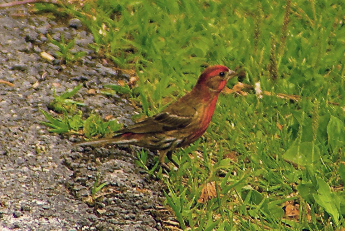 This is a profile of the male House Finch